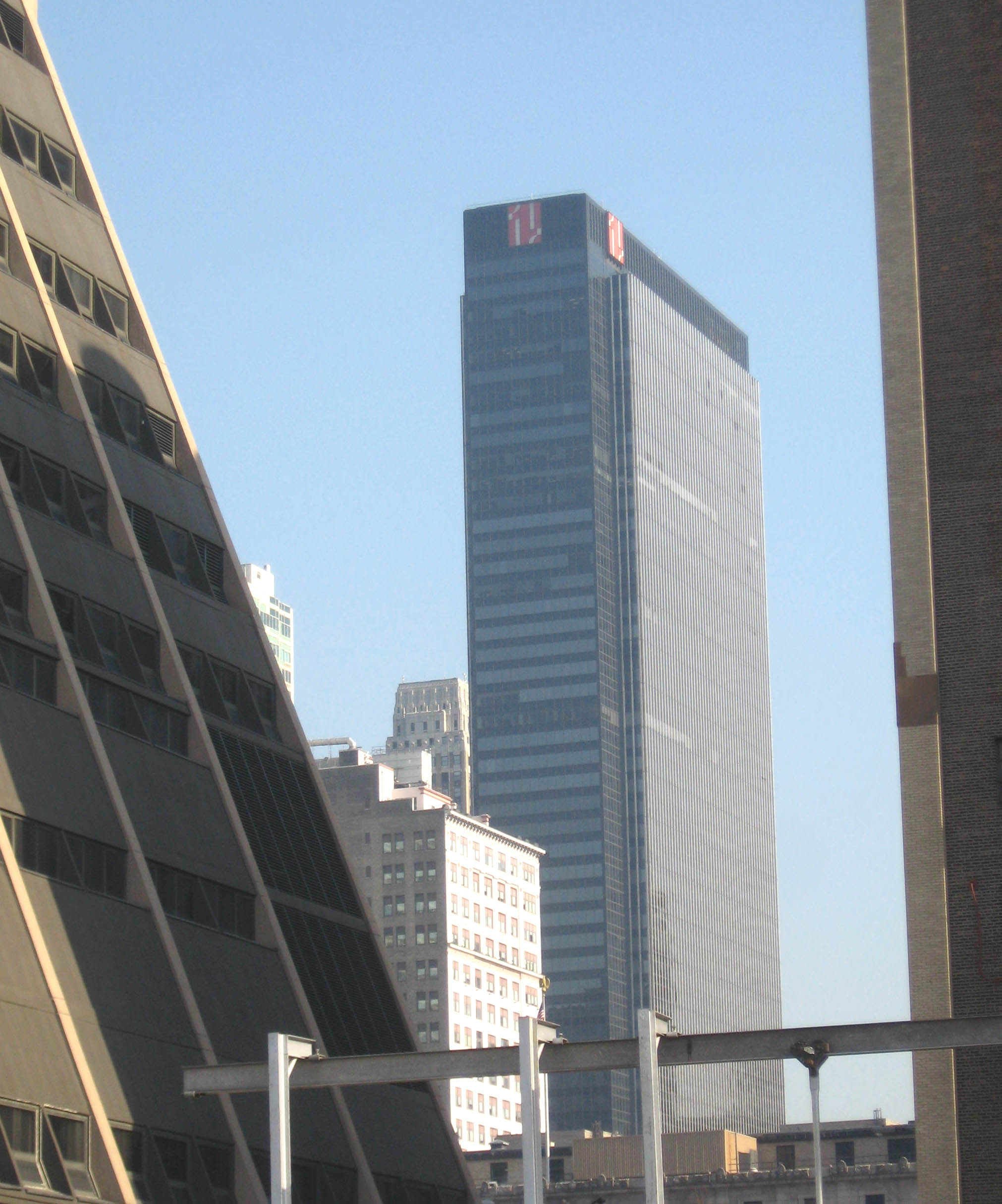 Looking east across 31st Street and 10th Avenue at the distant One Penn Plaza on a sunny early afternoon.